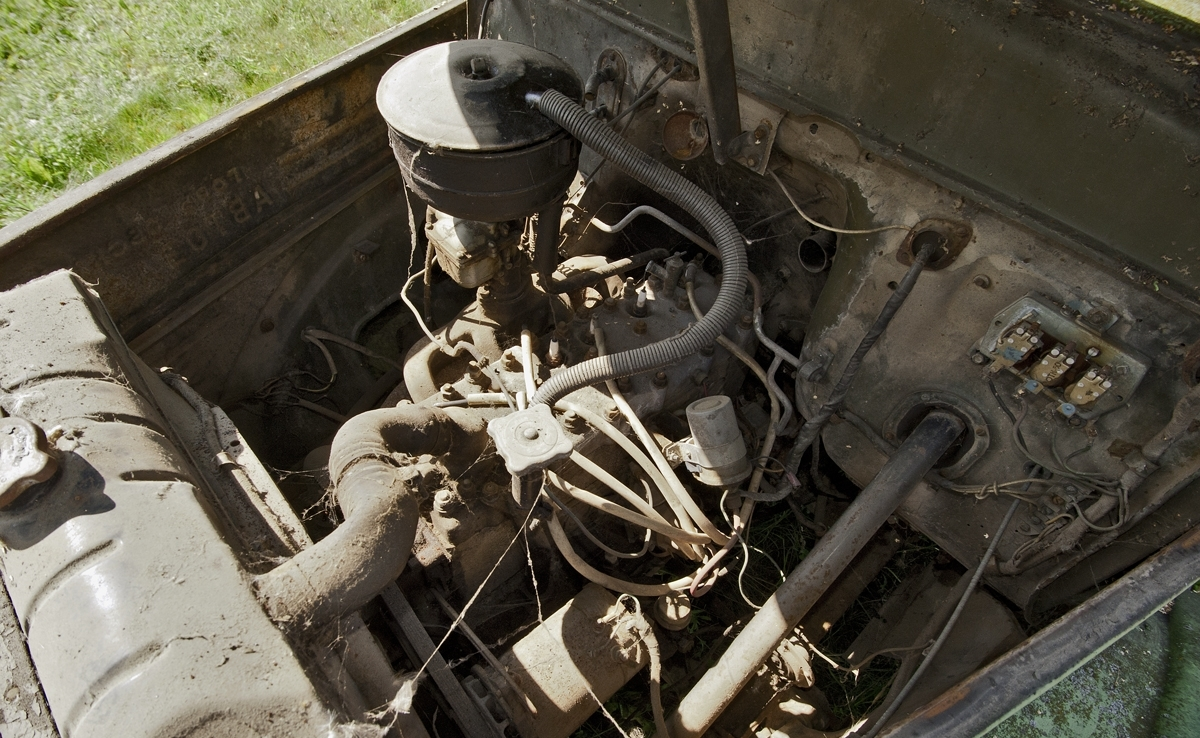 Gaz-51А. Gaz-51 engine 6-cylinder, ryadny, nizhneklapanny engine. Single-chamber carburetor, generator of a direct current 12В. Engine capacity of 73 h.p.